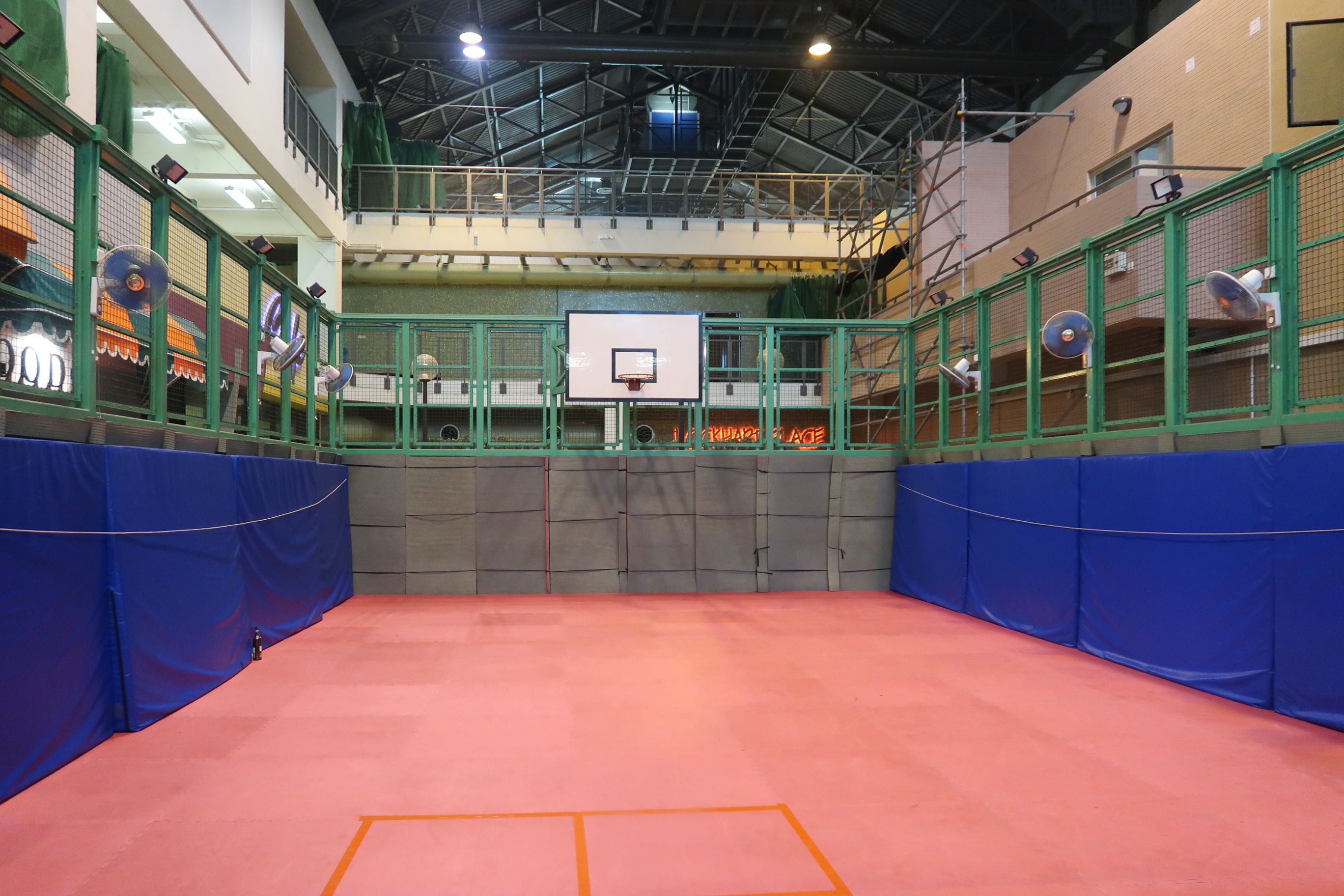 Hong Kong Police College Tactics Traning Complex Basketball Court